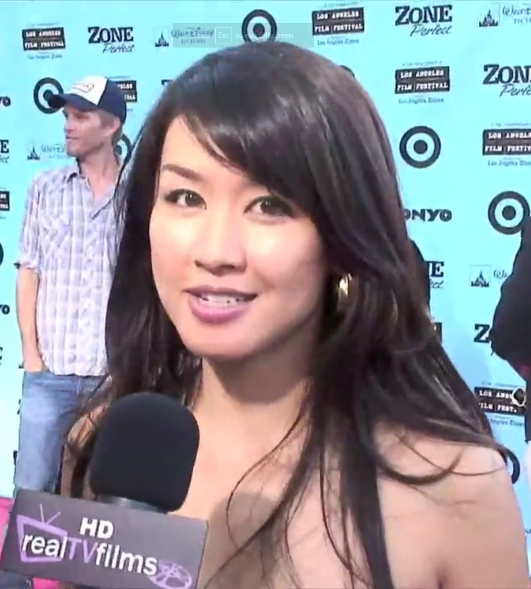 Japanese actress and singer Eriko Tamura interviewed by RealTVfilms about her role in the film Dragonball Evolution.